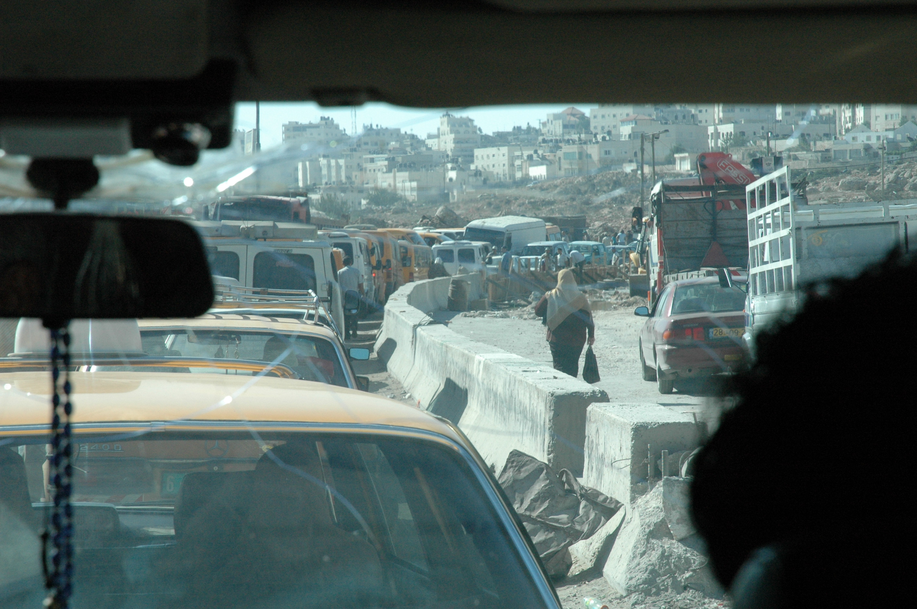 Israel, Kalandia - Vehicles queuing at the Israeli checkpoint at Kalandia.